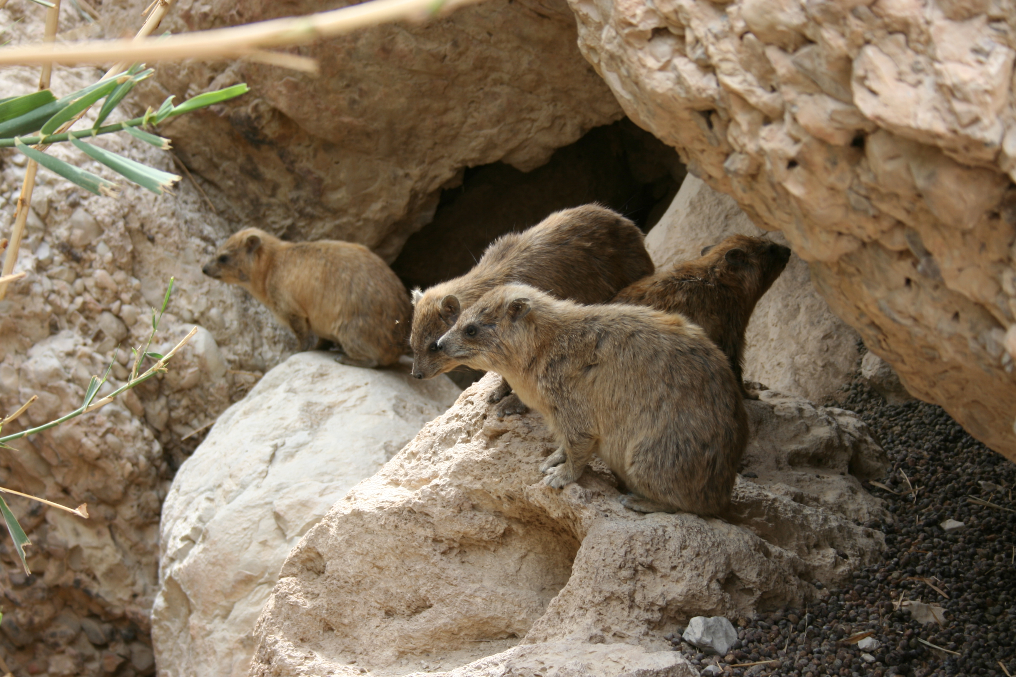 This Cape Hyraxes (Procavia capensis) was taken in Ein Gedi National Park, Israel